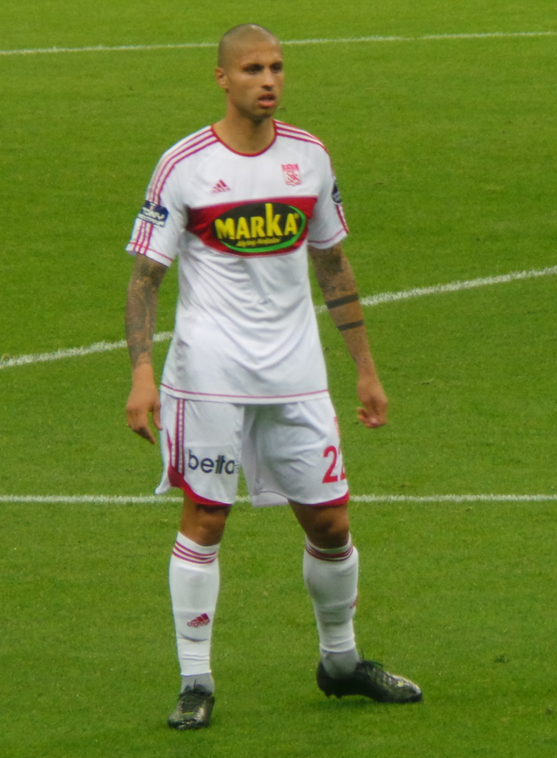 Da Costa with Sivasspor